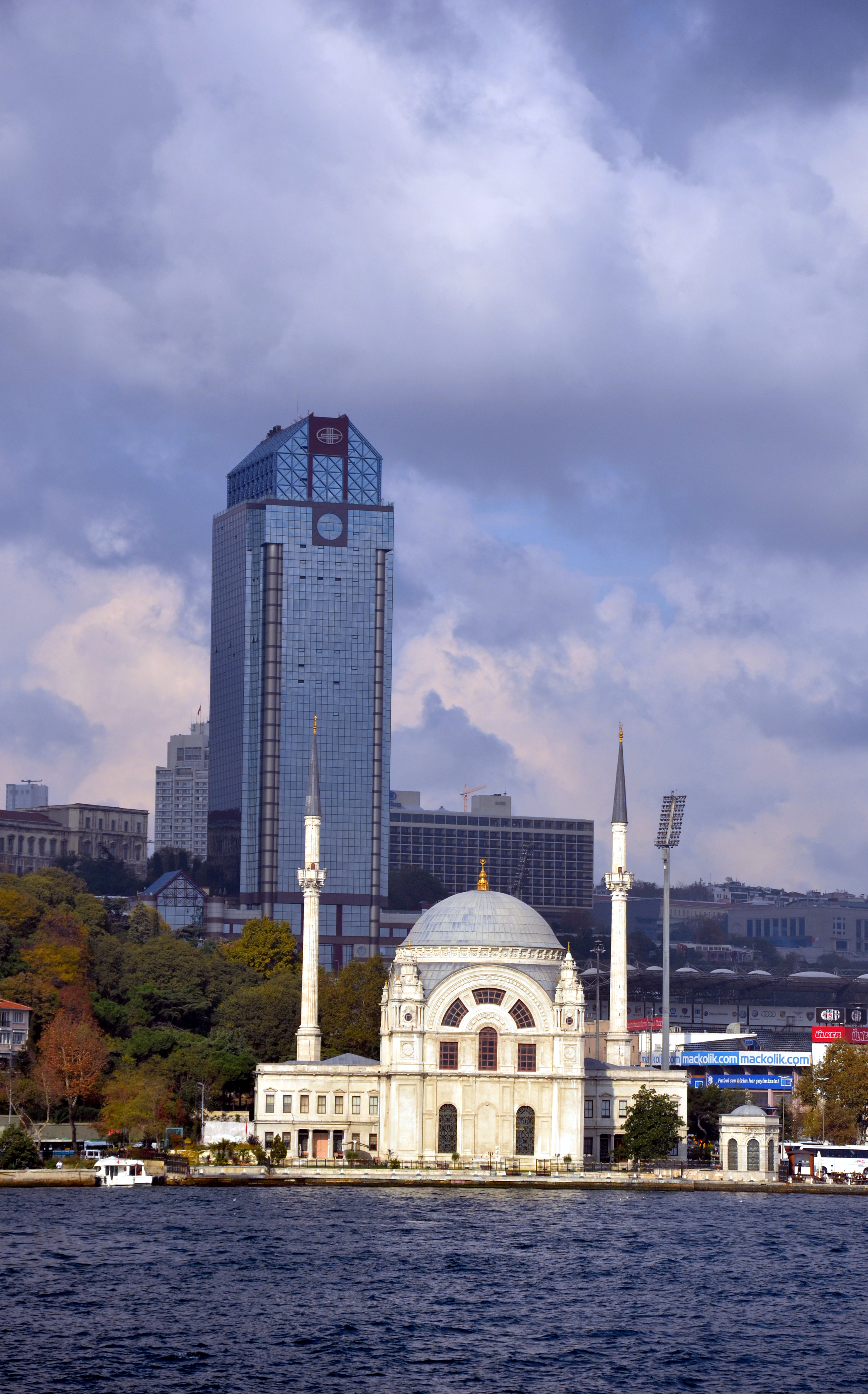 Dolmabahçe Mosque and The Ritz-Carlton Hotel Istanbul Turkey